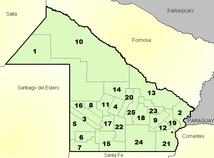 It shows administrative boundaries of Chaco province, its departments and its capital (Resistencia).